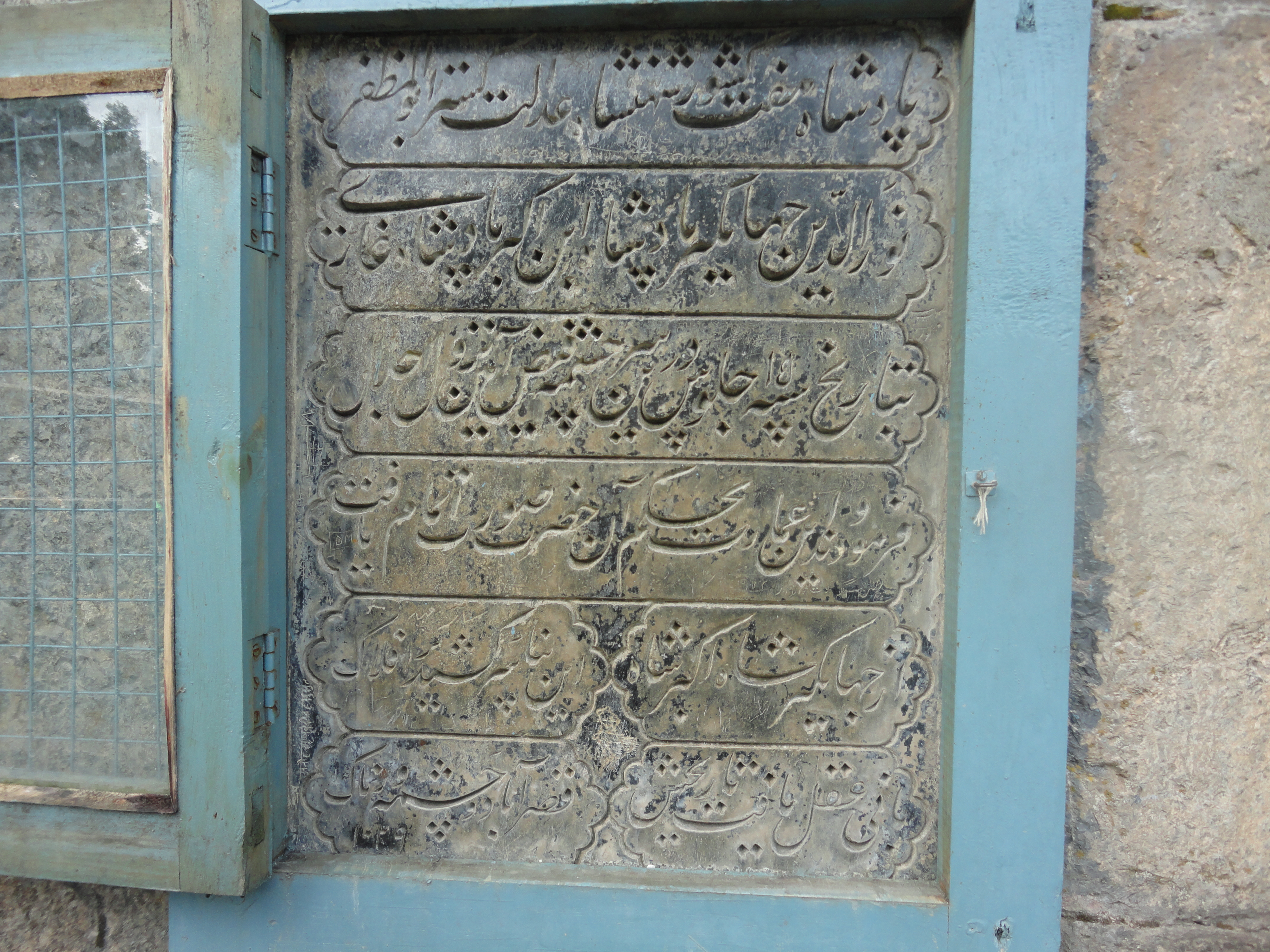 This picture shows stone slab built into southern wall of the Vernag spring at Verinag, Jammu and Kashmir, India.